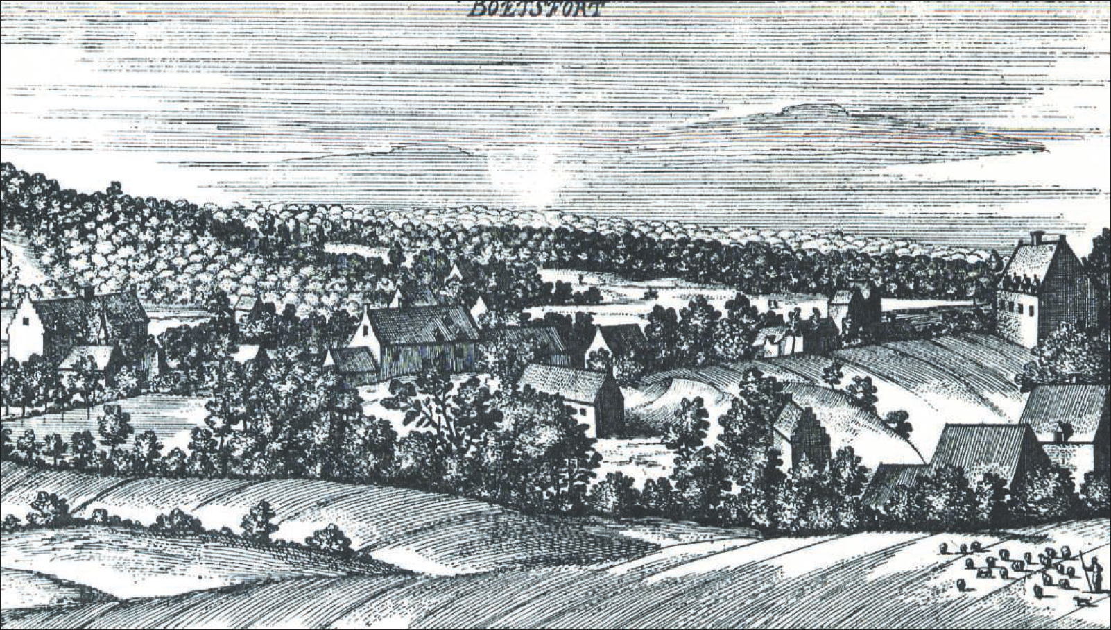 Boetsfort in the 17th century (engraving in Chorographia sacra Brabantiae)